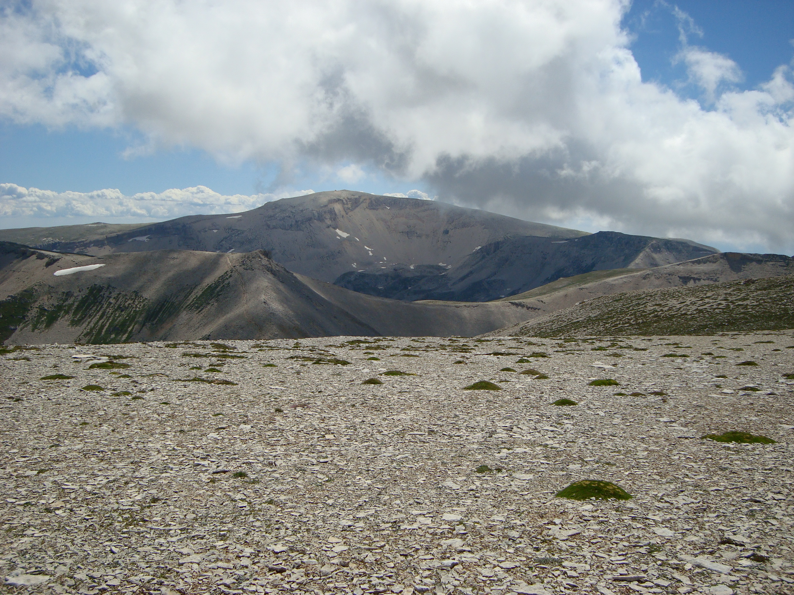 Monte Amaro from Monte Focalone, Majella, Abruzzo